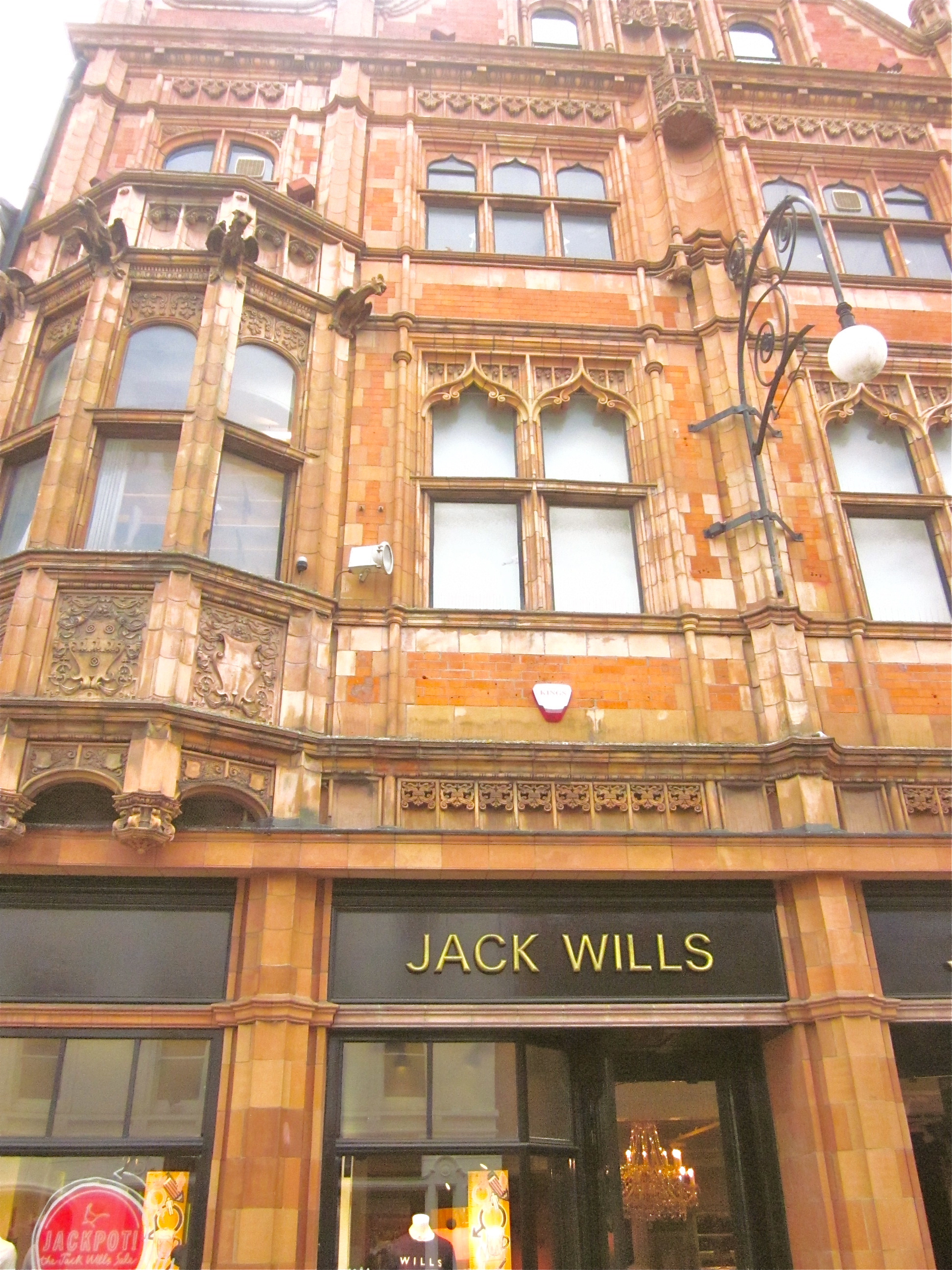 Gothic Terracotta Revival Architecture, High Street Lincoln